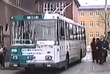 Skoda 14TR in the depo on the last day of service